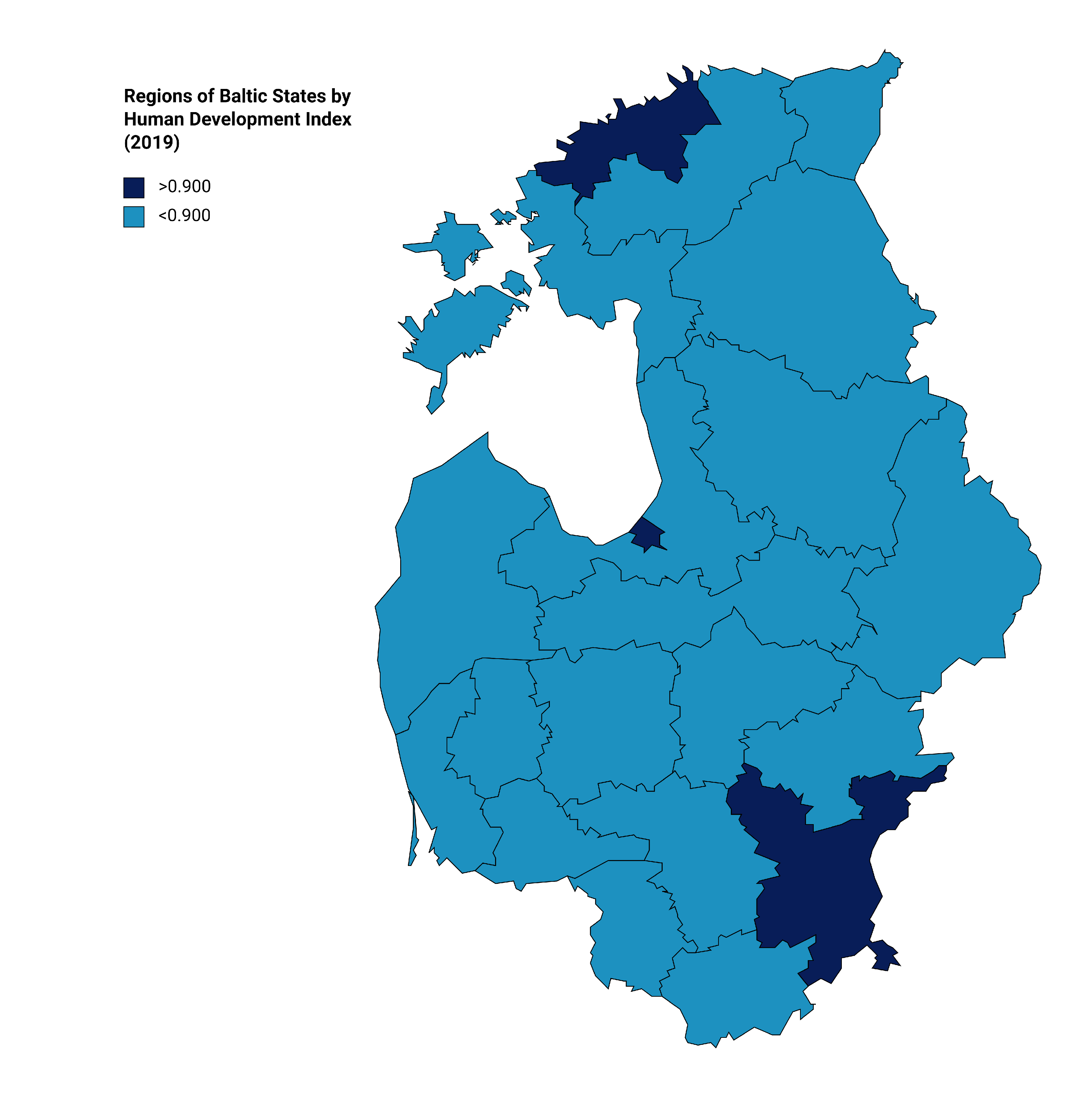 NUTS3 regions of the Baltic States by Human Development Index